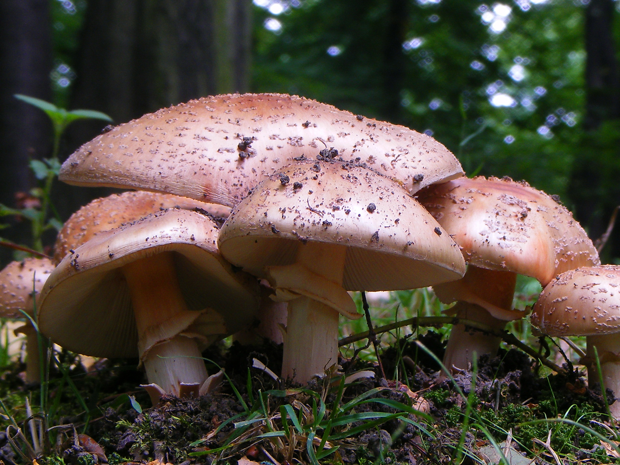 Amanita rubescens specimens.